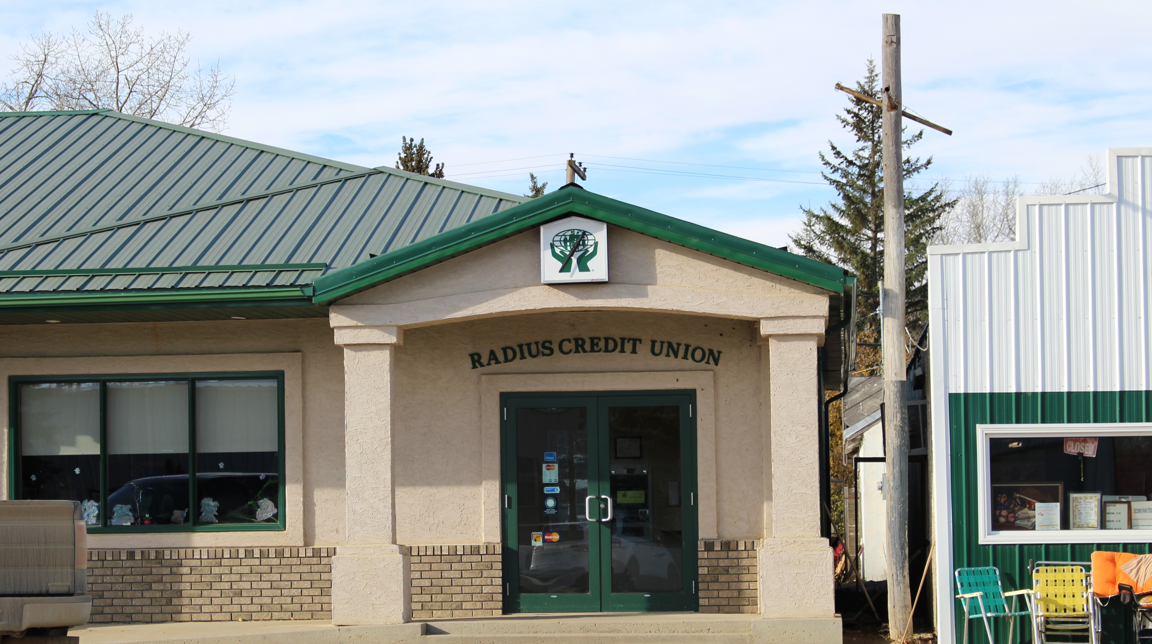 The Radius Credit Union in Ogema, Saskatchewan.